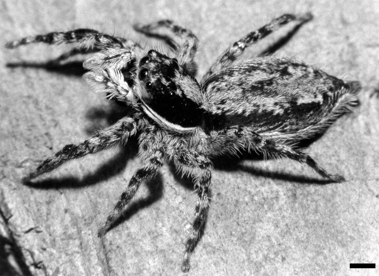 Female Menemerus bivittatus jumping spider from Gainesville, Alachua County, Florida USA